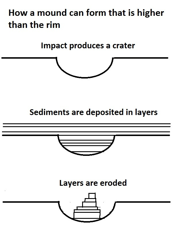 Drawings showing how a mound can form in a crater on Mars that is higher than the rim.